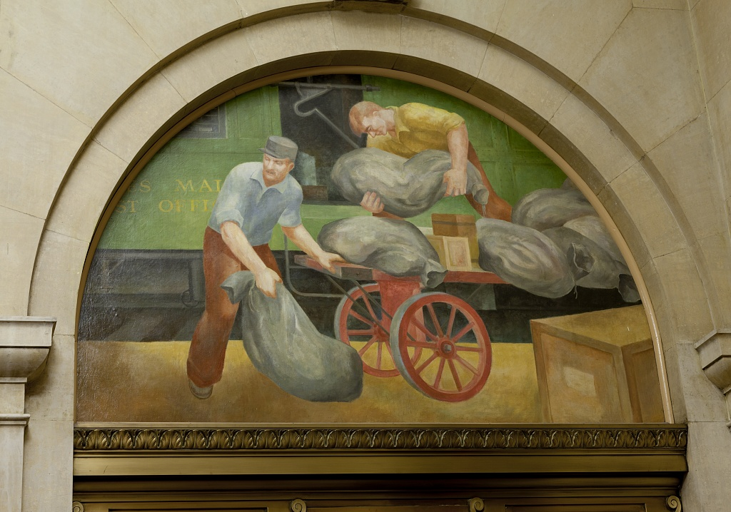 Murals "Louisville Murals - Post Office Rail Car," by Frank Weathers Long at the Gene Snyder U.S. Courthouse & Custom House, Louisville, Kentucky